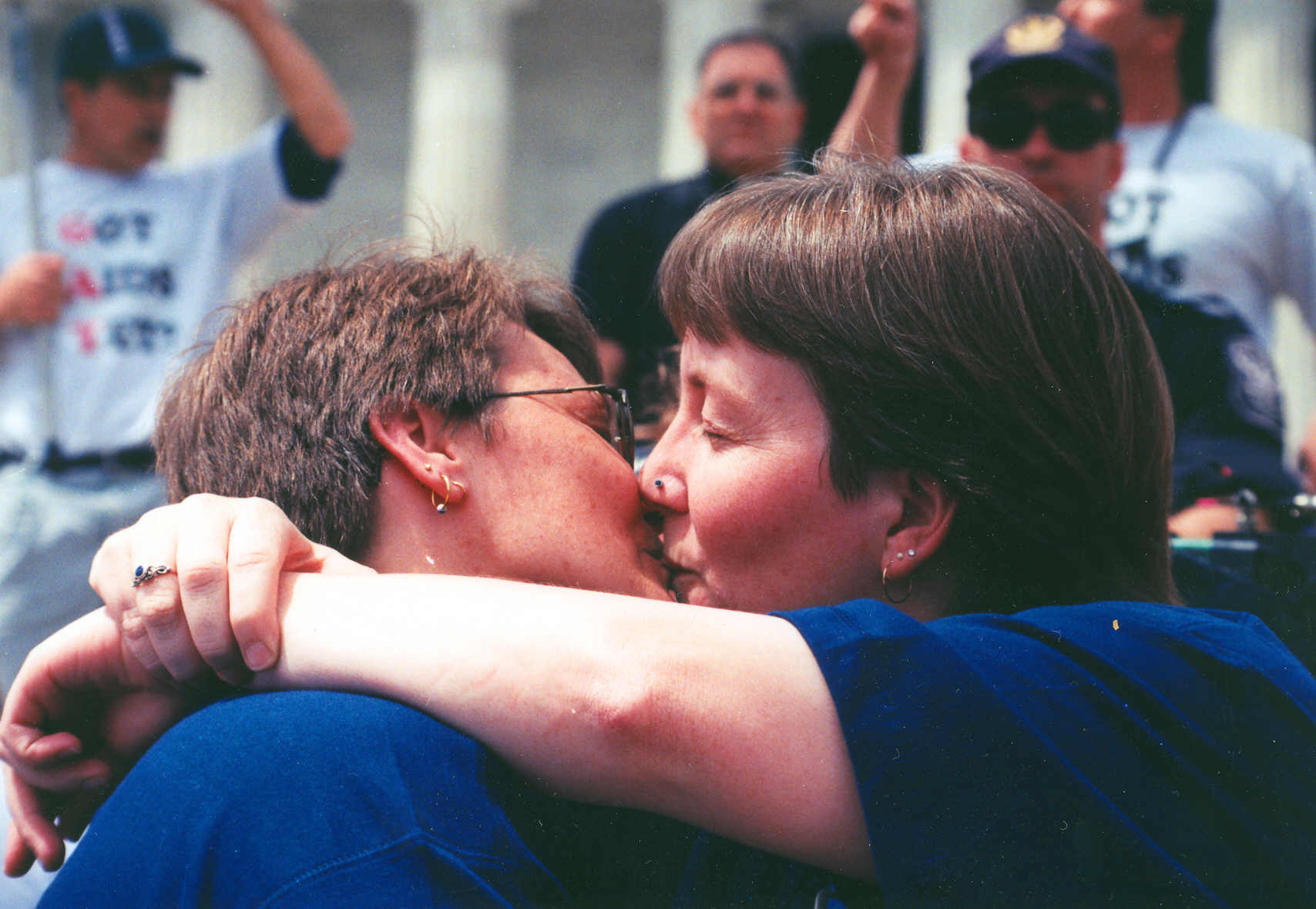 Millennium March on Washington (MMOW) for Equality . The Wedding: Now More Than Ever . Lincoln Memorial, NW . WDC . Saturday, 29 April 2000